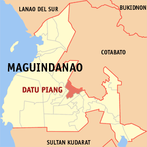 Map of the Maguindanao showing the location of Datu Piang